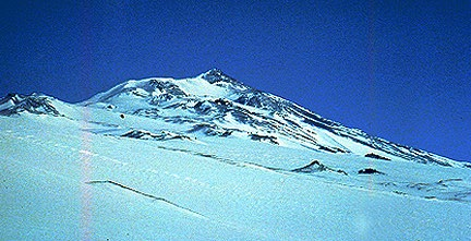 Photograph of the summit of Mount Terror